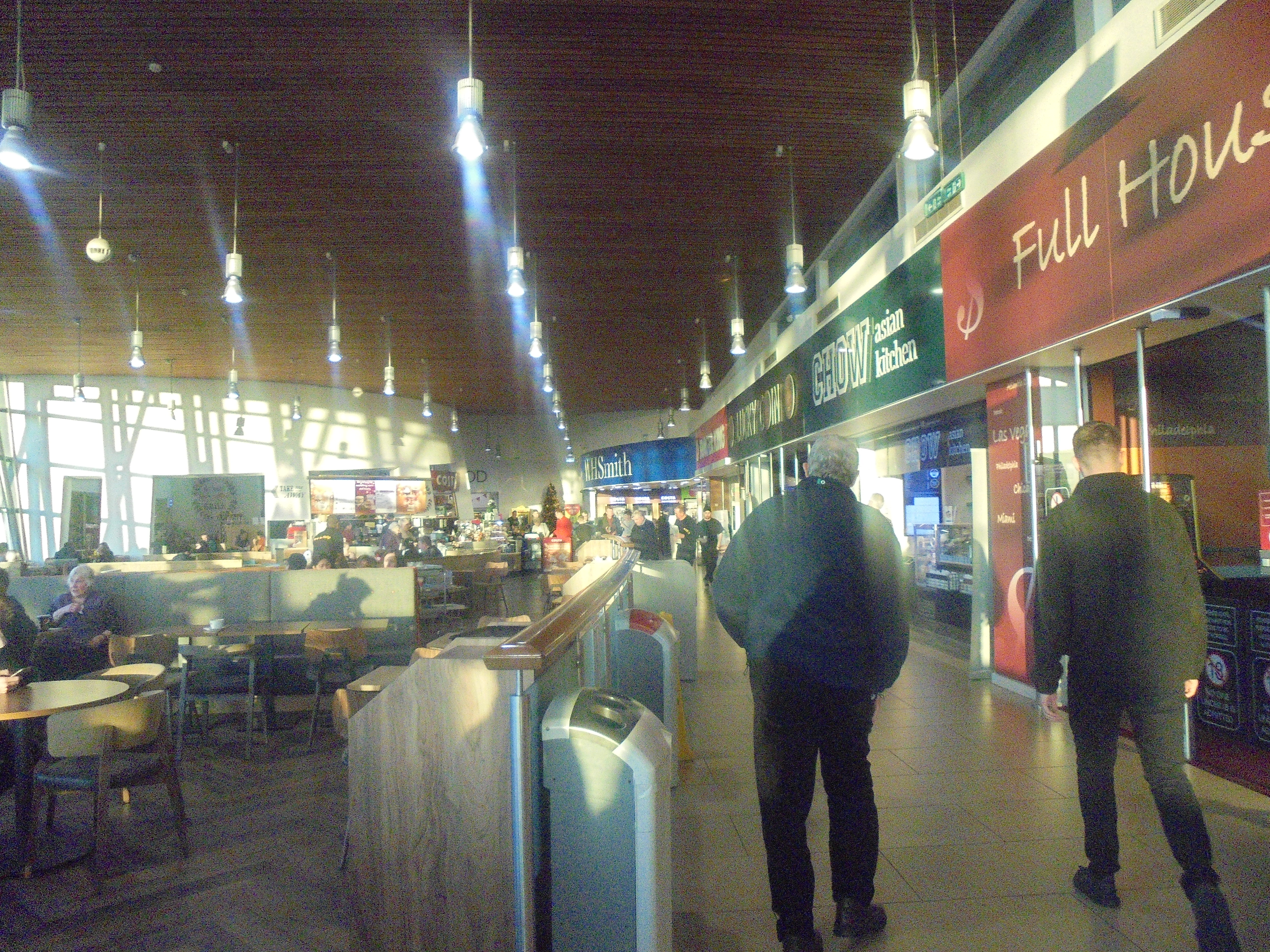 Interior of Wetherby Service Station. Taken on the afternoon of Saturday the 30th of November 2019.